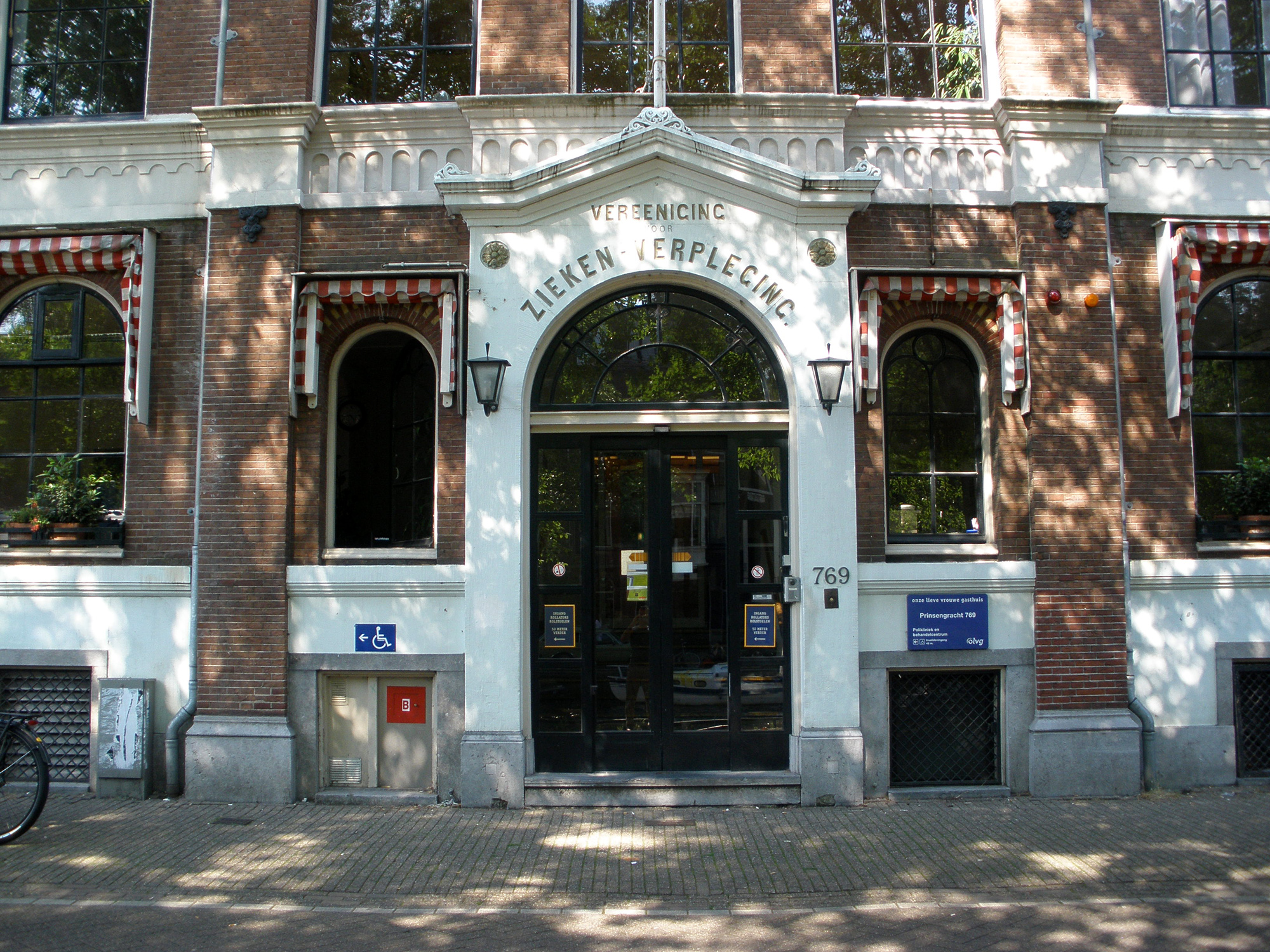 The Prinsengrachtziekenhuis, a former hospital on the Prinsengracht canal in Amsterdam